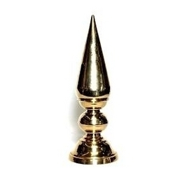 kalash